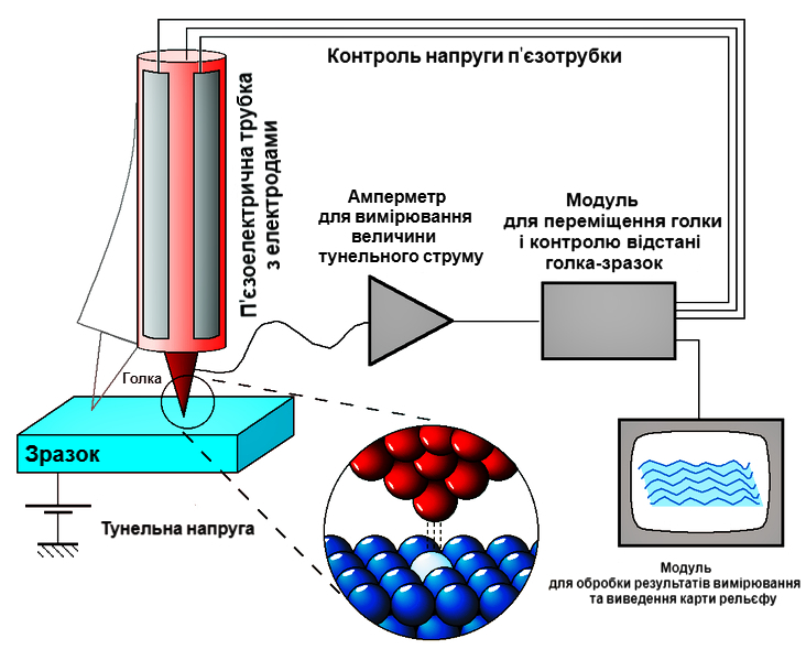 Scanning tunneling microscope